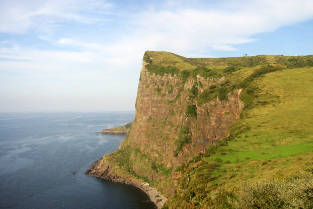 The Matengai of Kuniga Coast in Nishinosima (Oki Islands), Shimane prefecture, Japan. It is a cliff of 257m ( 843ft ) in height.